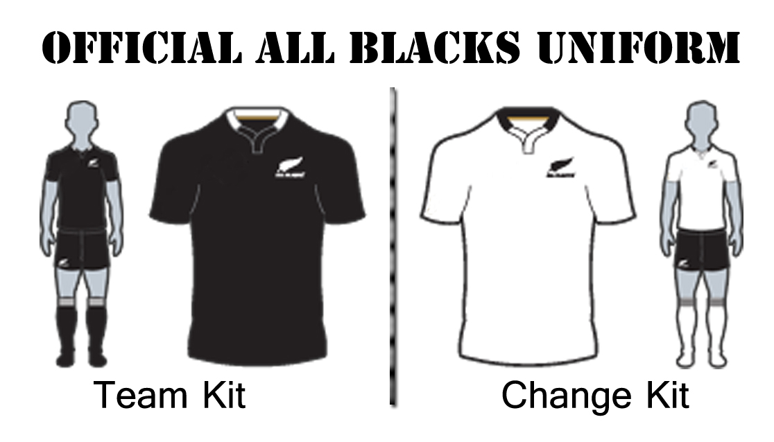 Official All Blacks kit